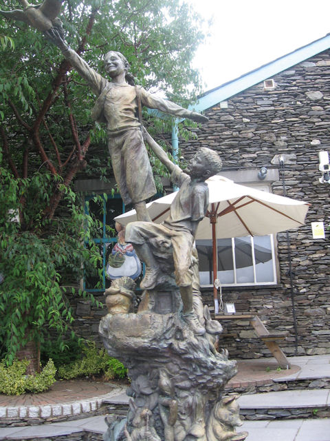 Sculpture at Beatrix Potter Exhibition